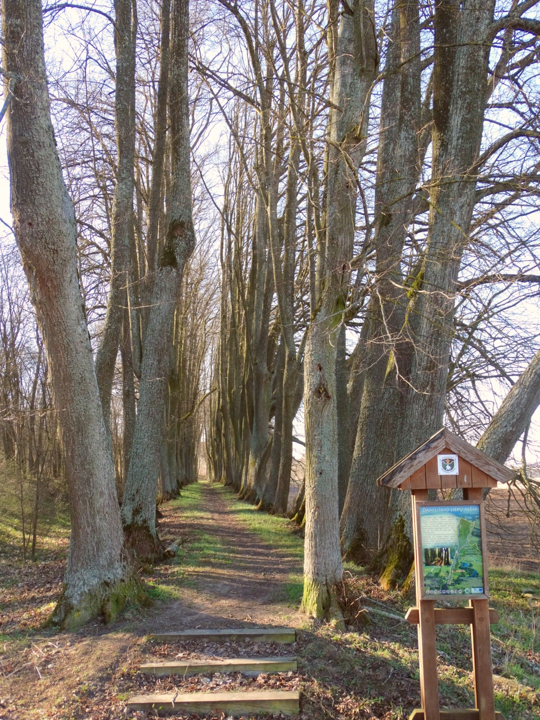 Daniliškis, Panevėžys district, Lithuania